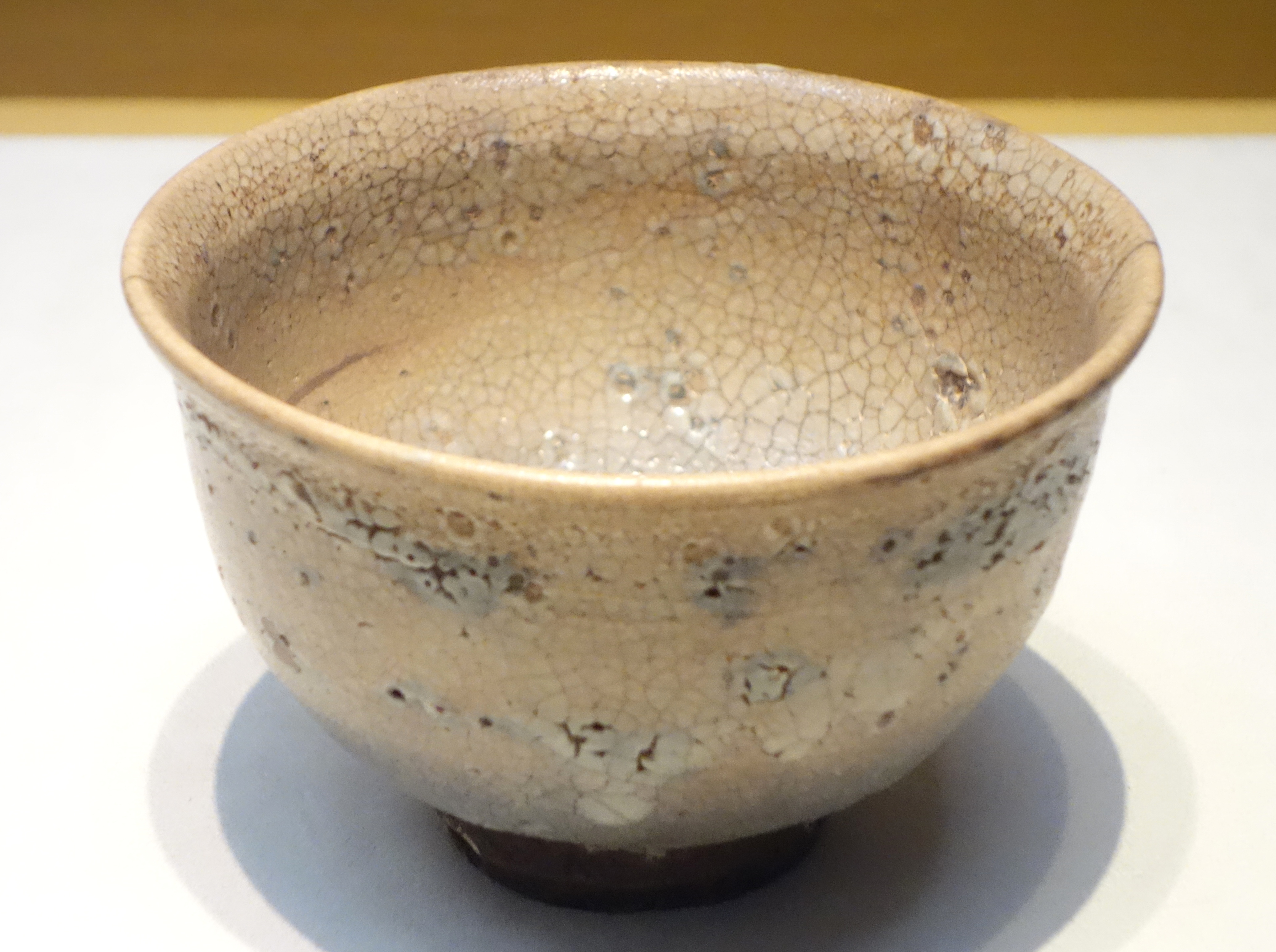 Exhibit in the Tokyo National Museum, Tokyo, Japan. This artwork is old enough so that it is in the public domain.